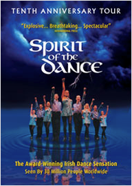 A poster for Spirit of the Dance, a show by theatre producer David King.